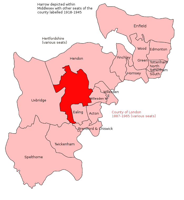 A map of Harrow constituency within Middlesex, as it existed from 1918 to 1945.